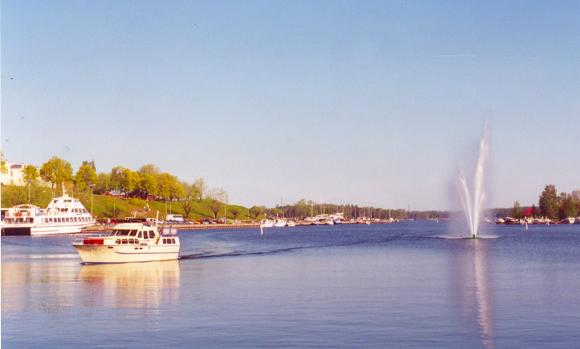 Port of Lappeenranta by day. May 2000 Taken with the creator's camera. No copyright issues